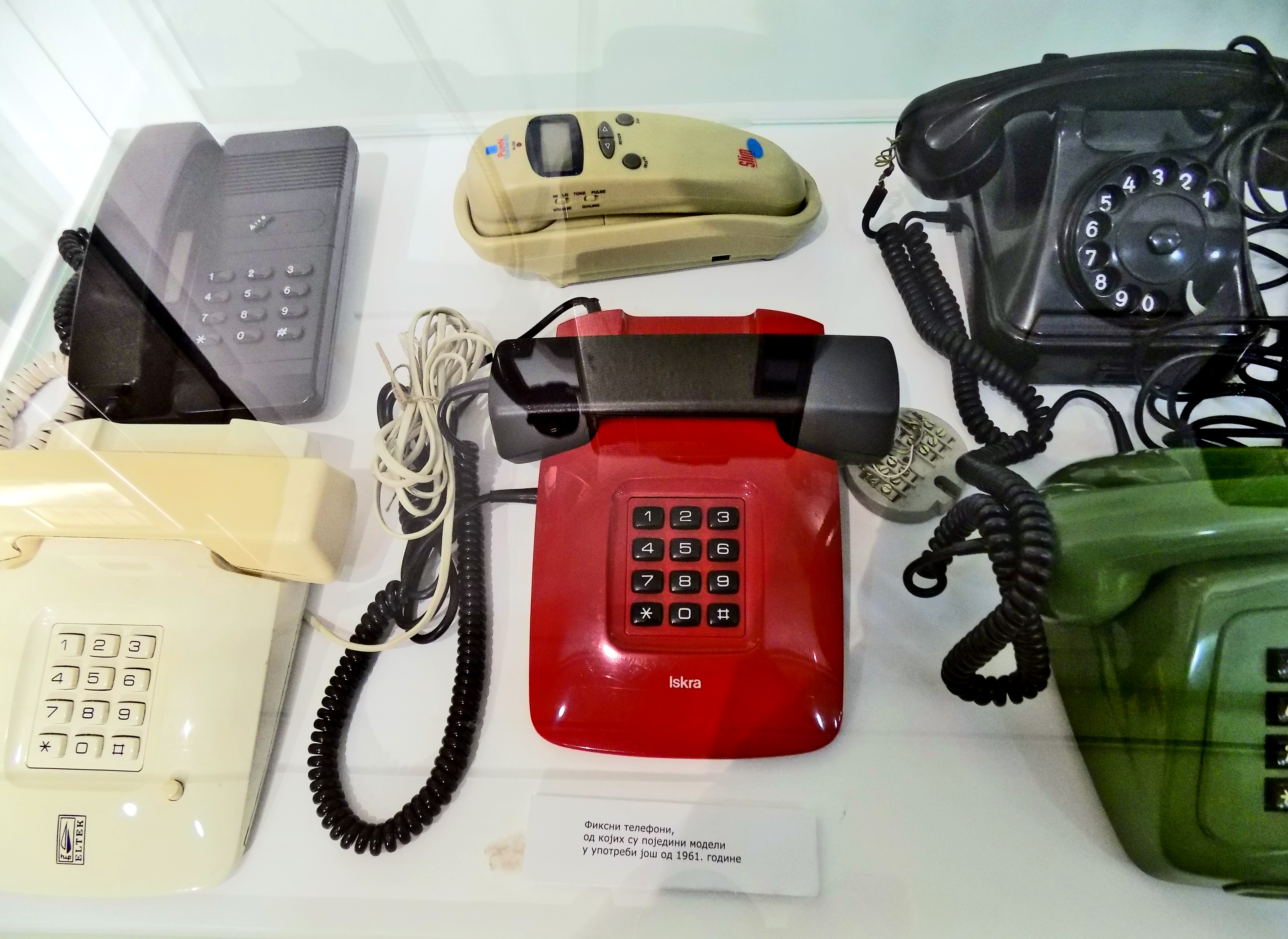 Telephone Iskra ETA (PTT Museum in Belgrade, Serbia) - the phone of "Iskra eta" was the pride of the Yugoslav and Slovenian designs from the late seventies and early eighties of the 20th century. Designed by Davorin Savnik. Due to poor patent protection, the model is copied to the world in 300 million copies (PTT Museum in Belgrade, Serbia)